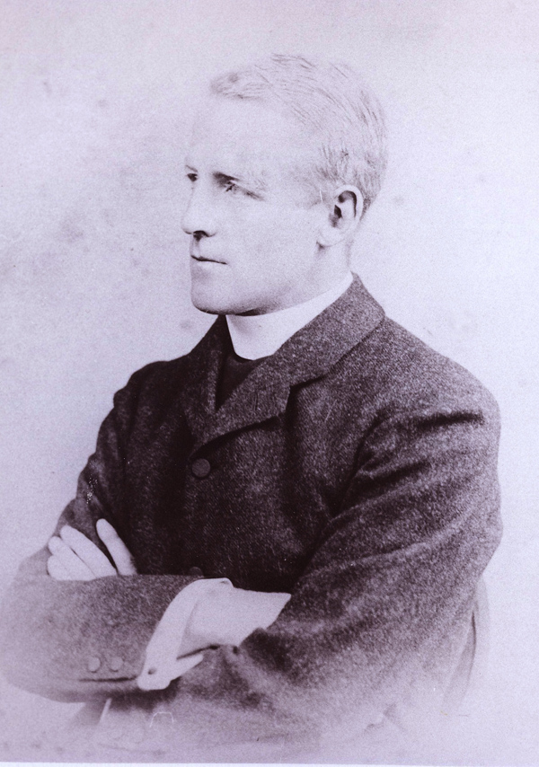 Arthur Karney (early photo)